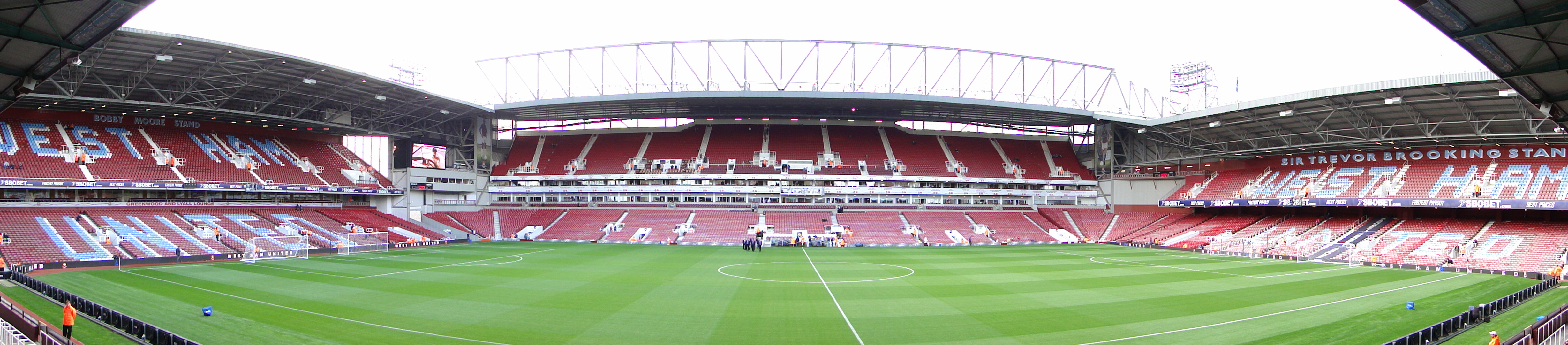 Panoramic view of West Ham's Boleyn Ground from the East Stand.